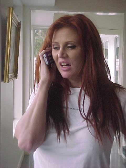 Renee LaRue on the Tera Patrick show